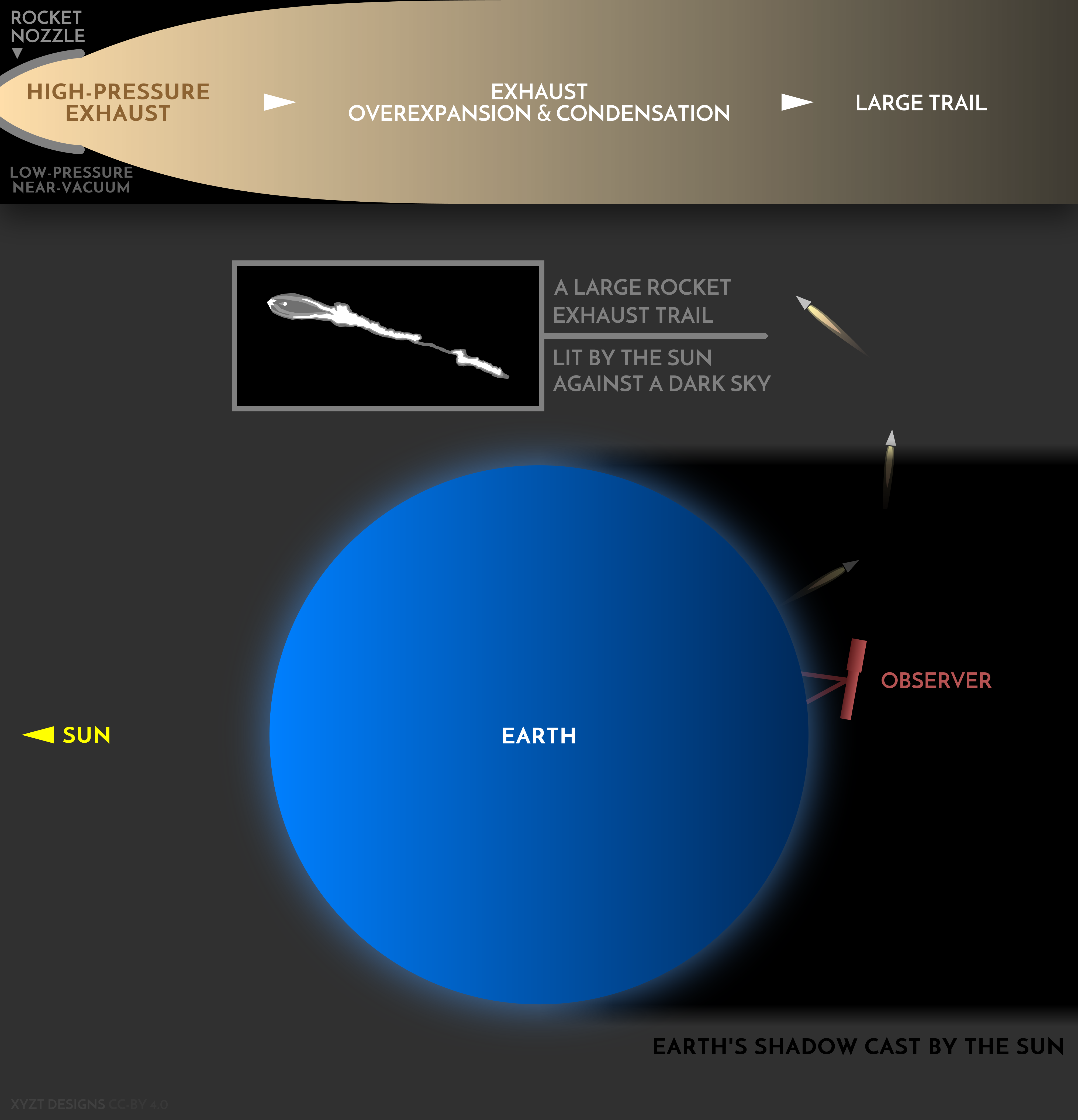 An infographic explaining how twilight phenomena happen.